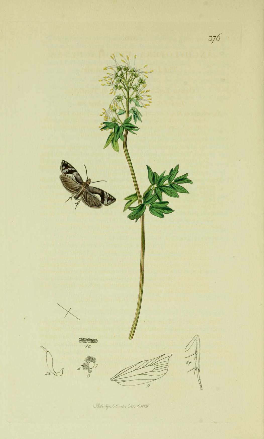 An illustration from British Entomology by John Curtis. Lepidoptera: Anchylopera ustomaculana or Rhopobota ustomaculana (Loch Rannoch Tortrix, Rannoch Bell).